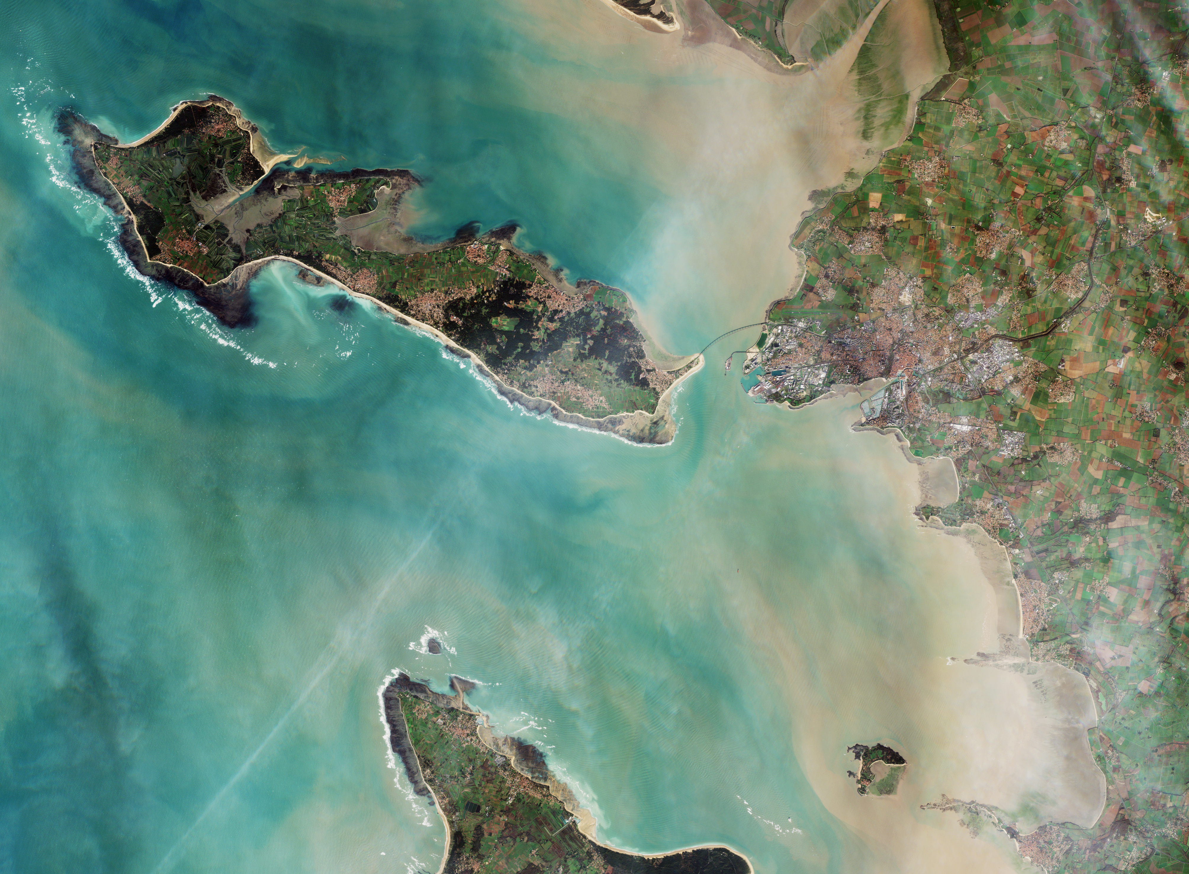 Capital of the Charente-Maritime department in western France, La Rochelle and surroundings are featured in this Sentinel-2A image, captured on 26 December 2015. Home to some 80 000 people, La Rochelle is a city and a seaport on the Bay of Biscay, a part of the Atlantic Ocean, connected to the Île de Ré by a 2.9 km-long bridge, clearly visible in the centre of the image. La Rochelle and surrounding areas sit on layers of limestone dating back some 160 million years, when a large part of France was under water. These various layers containing many small marine fossils are traditionally used as the main construction material throughout the region. The coastal area is dominated by sandy beaches, which are visible as white lines somewhat inland. Between the beach and the water-line, darker sand and silt layers are visible, which are exposed in this image taken during low tide. The 4–5 m tidal range creates a heaven for wild mussels and oysters, making it one of the major places for shell farming in Europe. Also visible just north of the city is the La Rochelle-Ile de Ré airport. Thanks to the high-resolution multispectral instrument on Sentinel-2A, we can clearly make out the various agricultural fields around the city and surrounding towns, as well as on the Île de Ré Island. Part of the Natural Reserve of the Bay of Aiguillon is visible at top right. It is one of the most important reserves in France, hosting hundreds of thousands of migratory water birds every year. It is a place of synergy between land and sea, between saltwater and freshwater, and between nature and humankind. Sentinel-2A has been in orbit since 23 June 2015 as a polar-orbiting, high-resolution satellite for land monitoring, providing imagery of vegetation, soil and water cover, inland waterways and coastal areas. This image is also featured on theEarth from Space video programme.